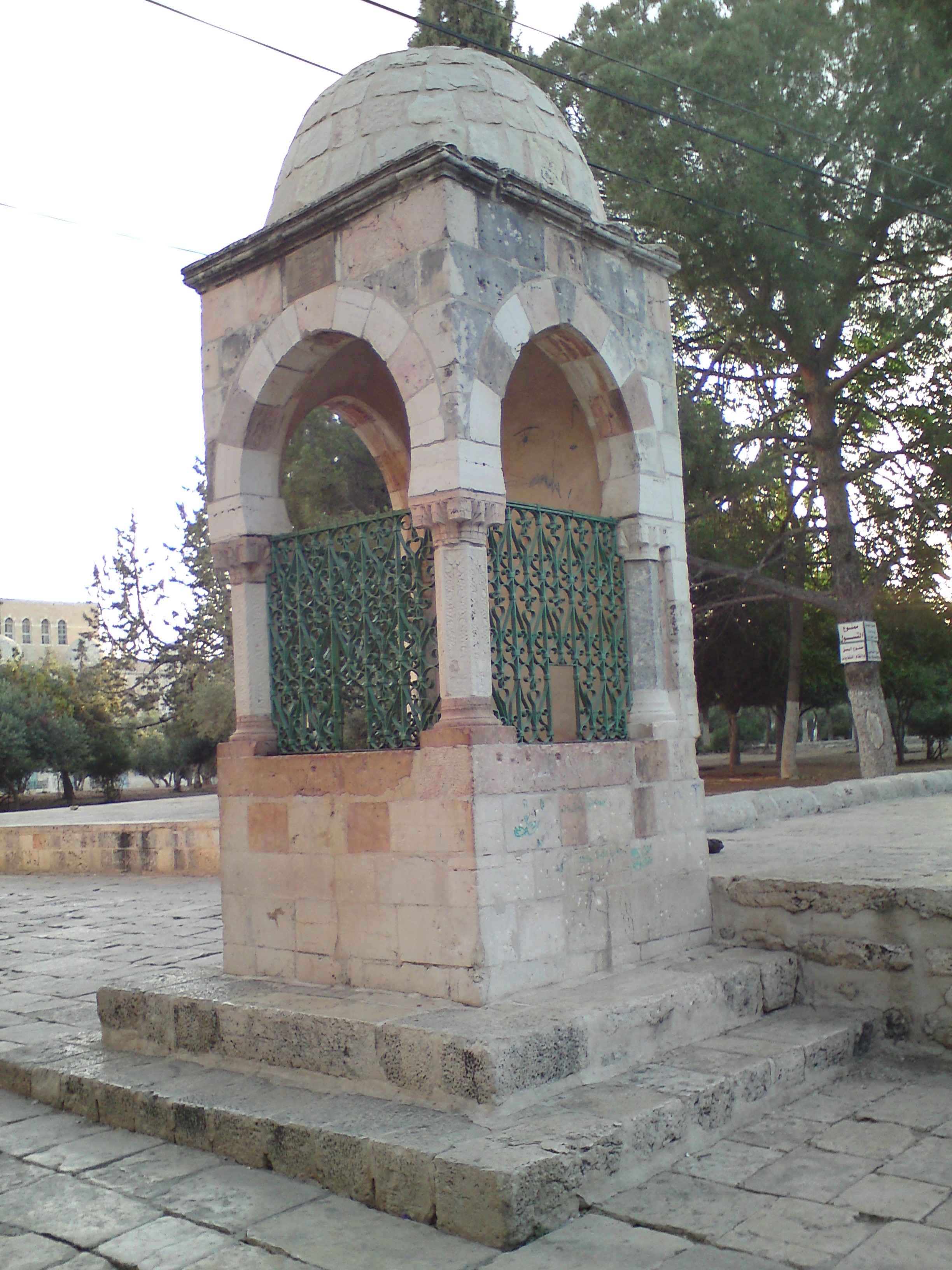 Al-Aqsa Mosque